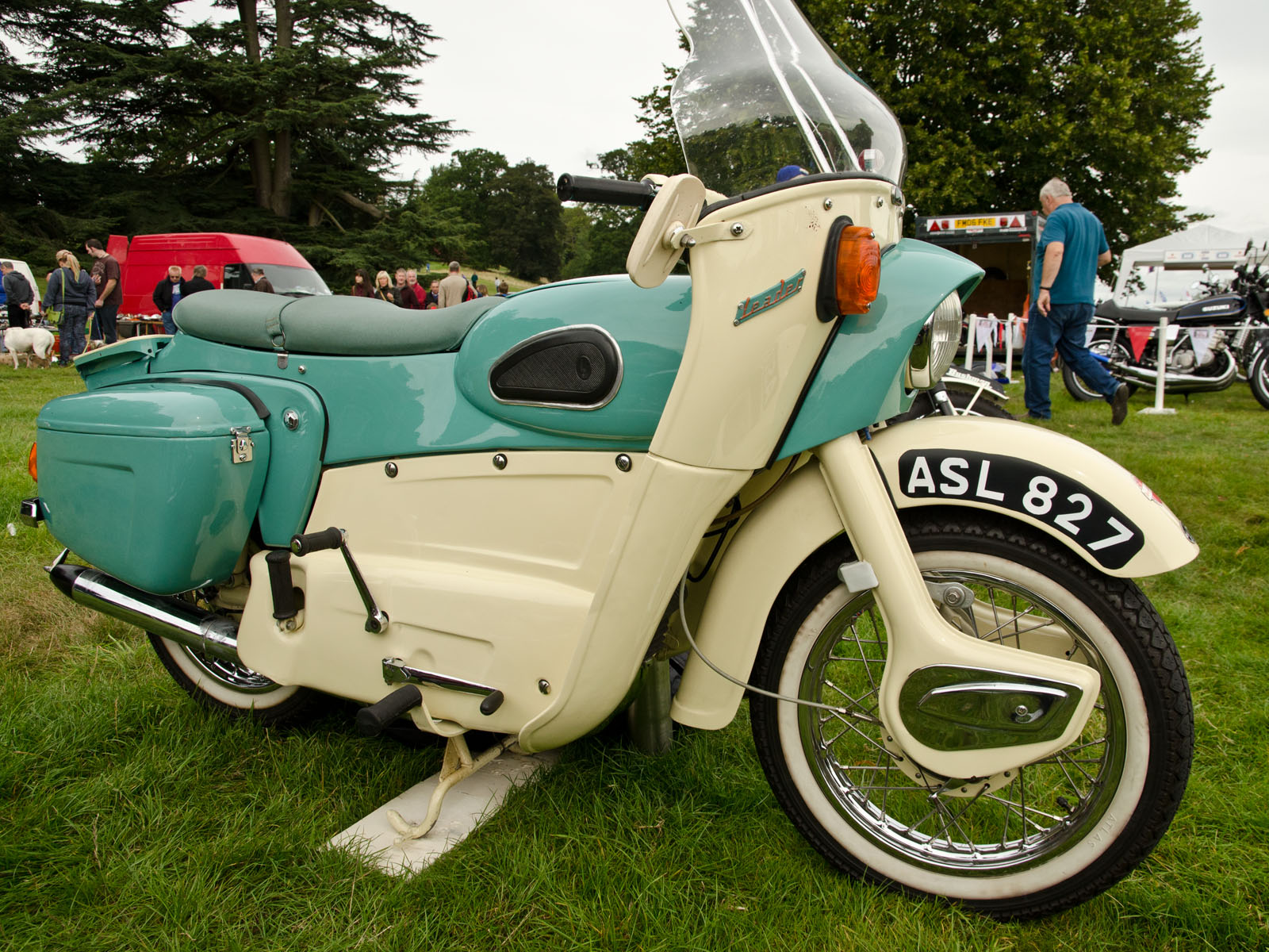 Cholmondeley Classic Car Show 01/09/2013